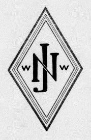 Logo of Wolf Netter & Jacobi company, taken form old catalog on Internet archives